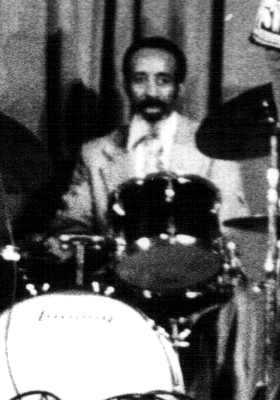 Jazz drummer Eddie Locke in France